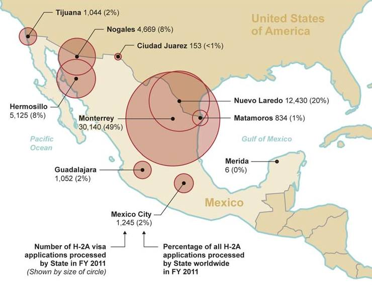 This image is excerpted from a U.S. GAO report: H-2A VISA PROGRAM: Modernization and Improved Guidance Could Reduce Employer Application Burden